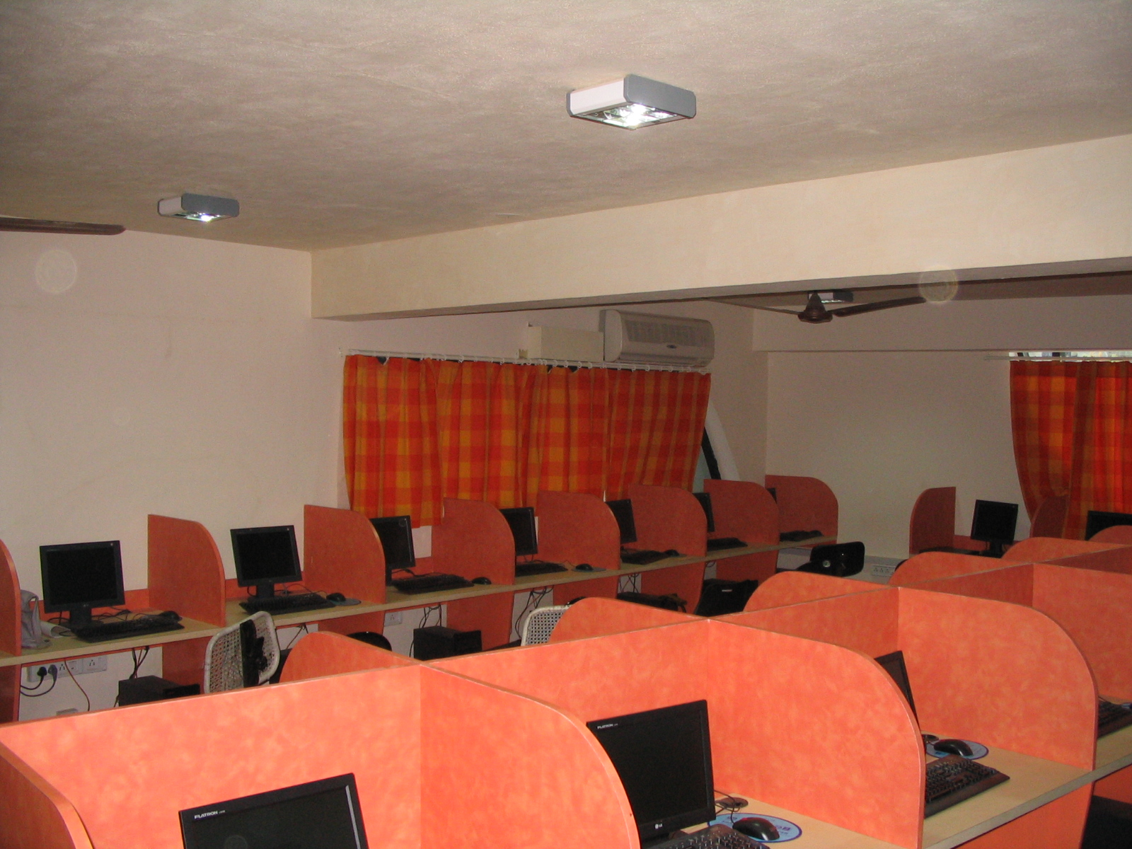 Computer lab in Chennai Mathematical Institute